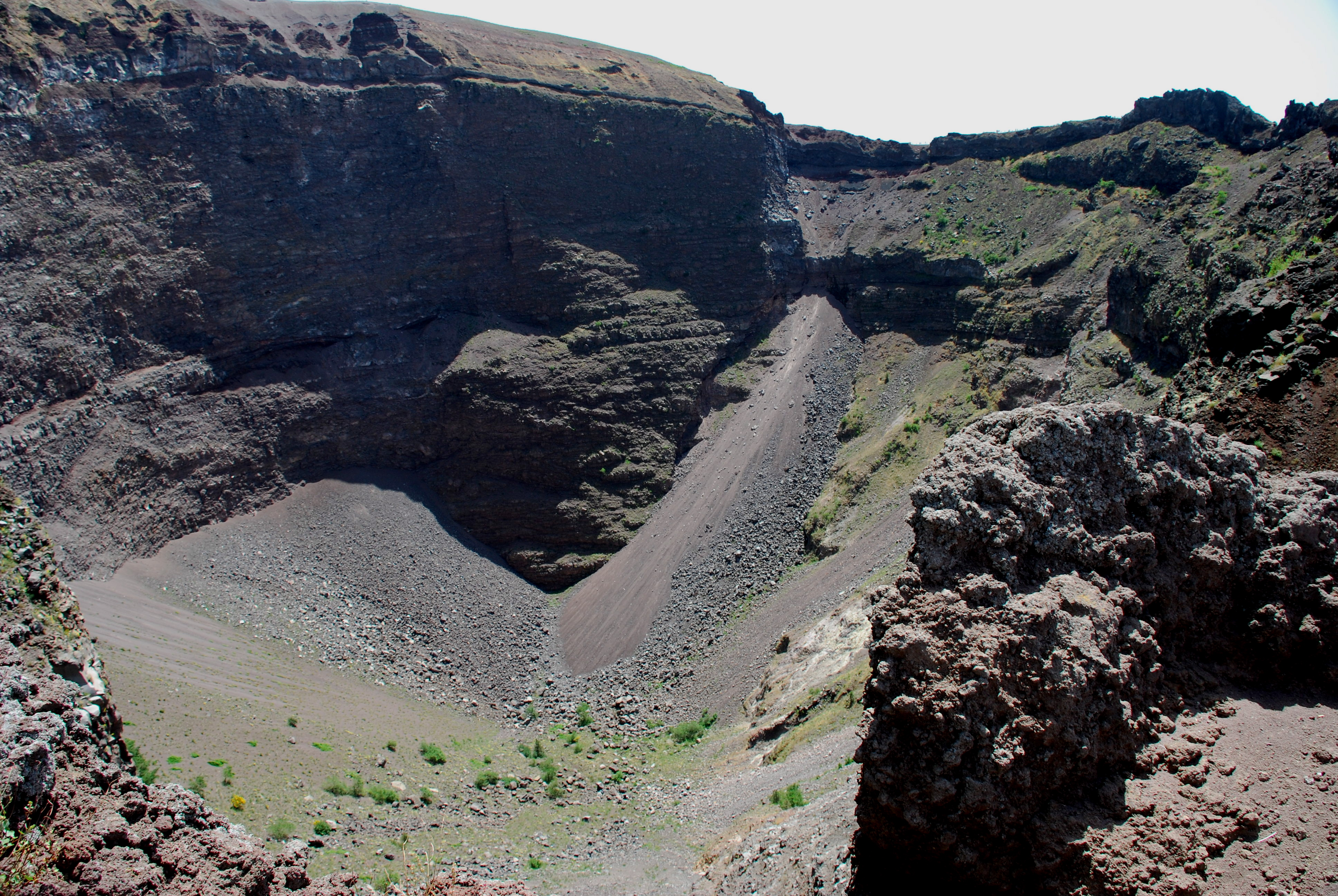 The interior of the Vesuvio main crater